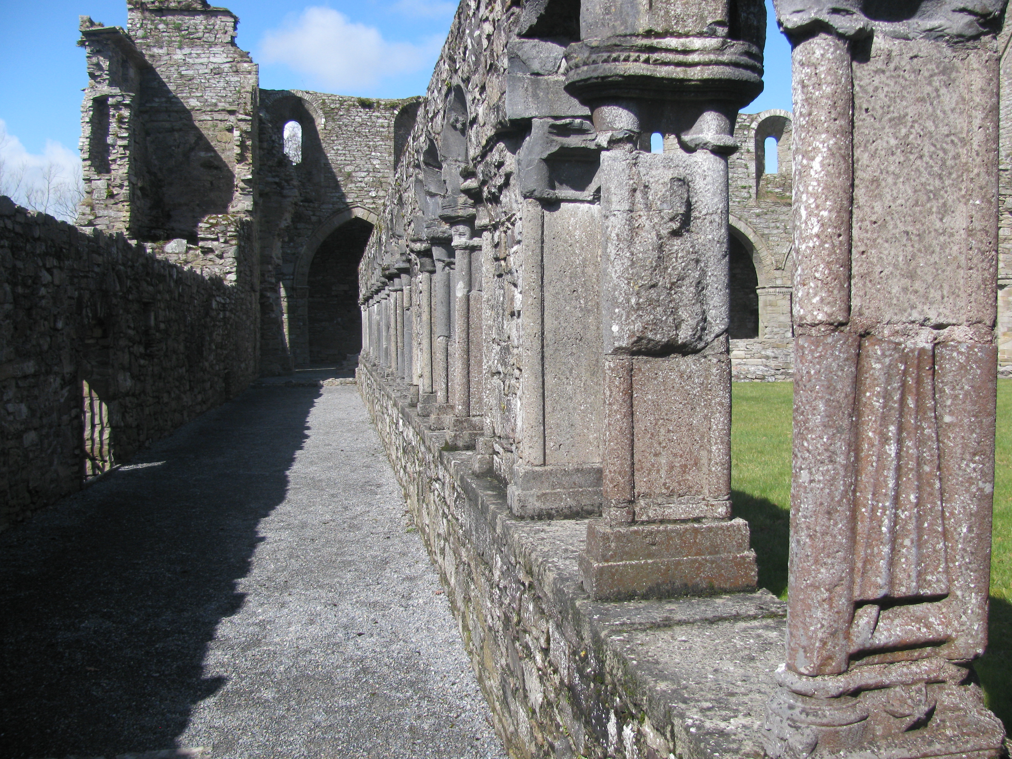 Jerpoint Abbey, Thomastown, Co Kilkenny - Cistercian abbey, founded c. 1180